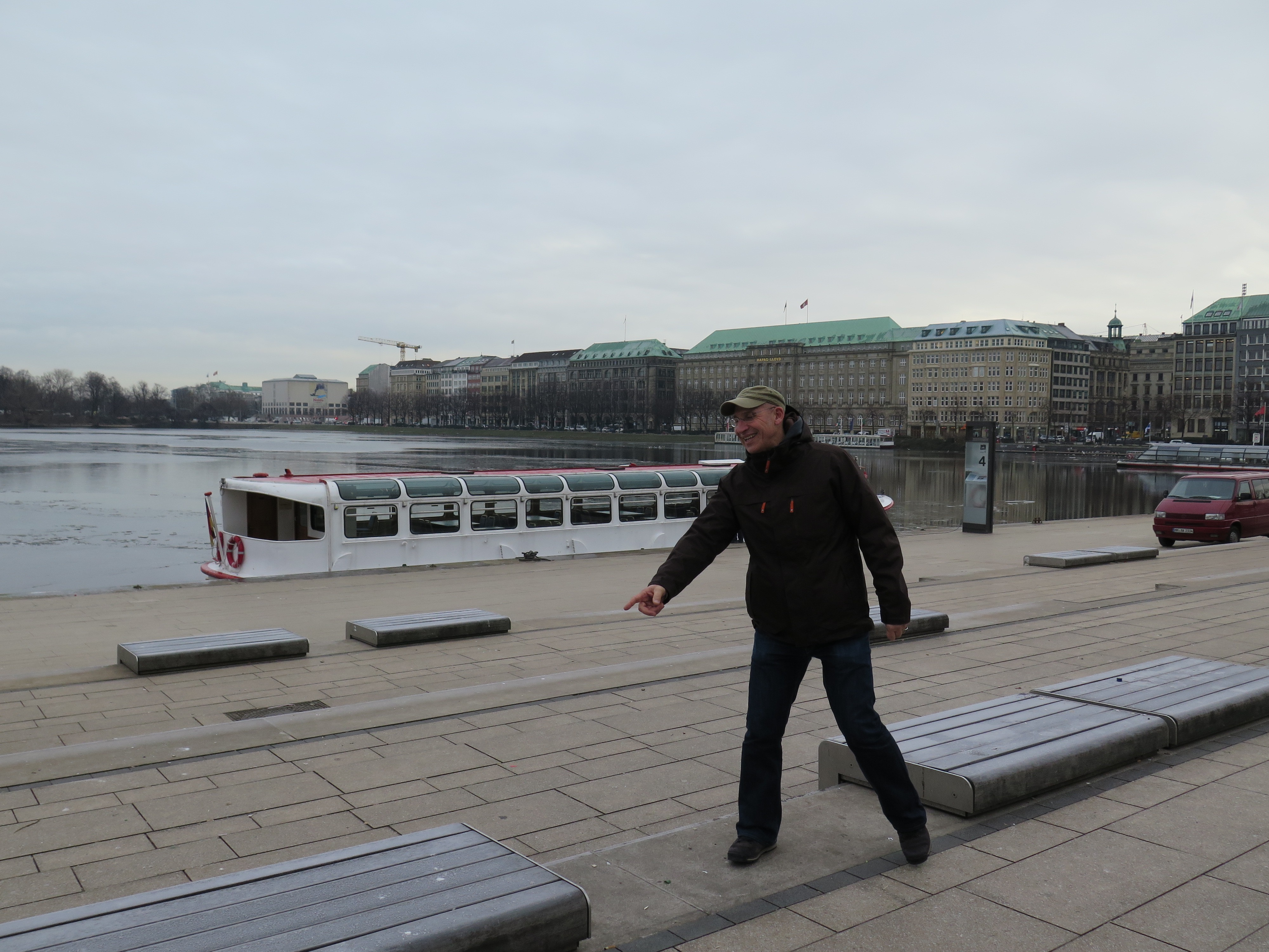 The artist Paolo Moretto shows the incredible moving Bench.